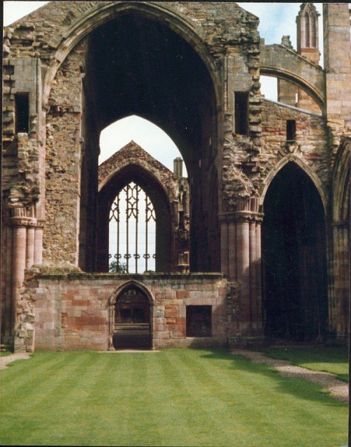 Melrose Abbey, Melrose, Scotland